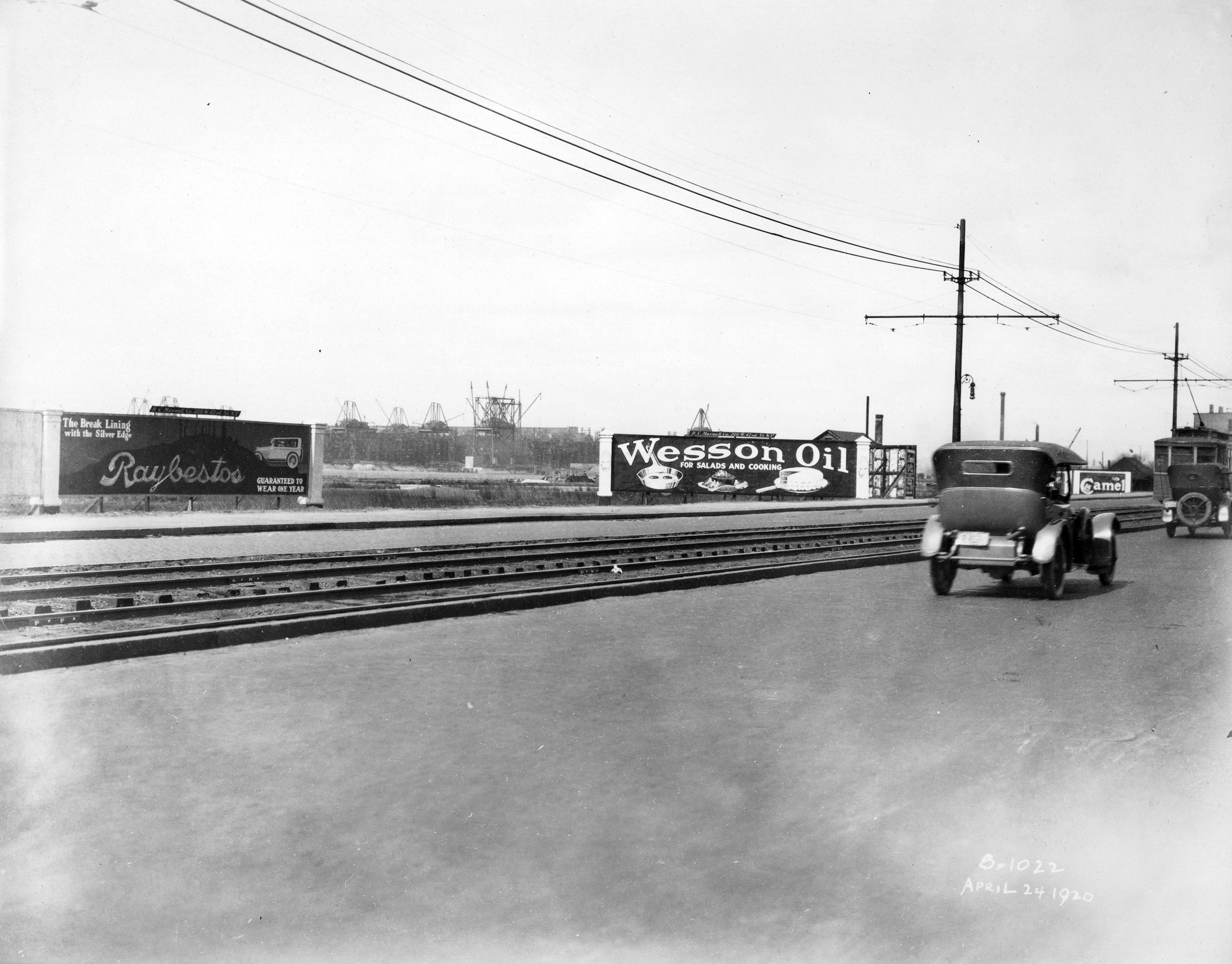 Lincoln Highway near Hack River. Those are streetcar tracks in the median. The streetcar is visible on the far right.